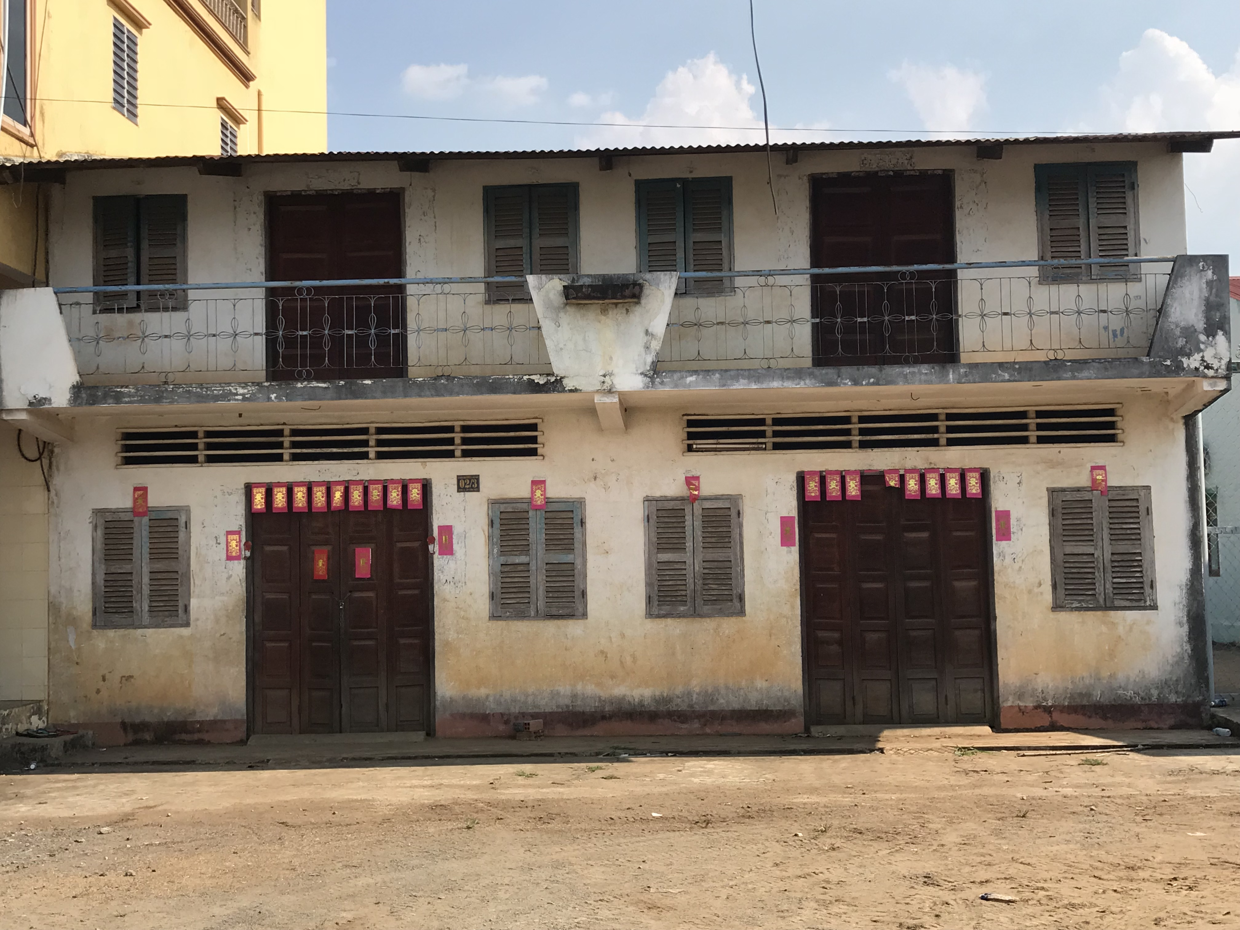 House of Hoa Nung people in Song Thao, Dong Nai